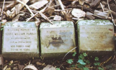 Grave photo of Victoria Cross recipient Henry William Murray, migrated from the Victoria Cross Reference site with permission. Photo by Terry Macdonald.